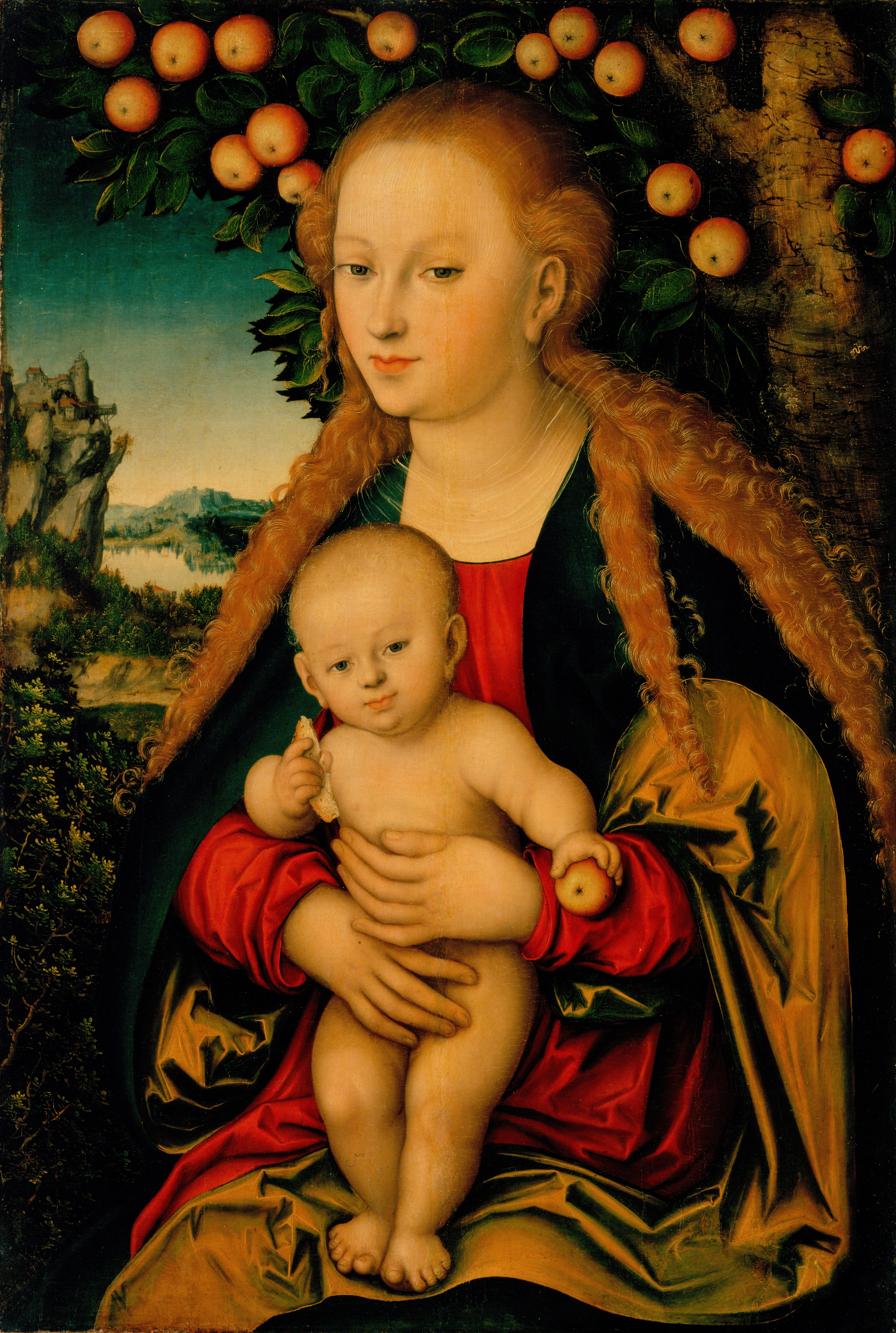 The Child Christ helds bread and apple in his hands. The apple is the symbol of the original sin, the bread (the body of Christ) of the redemption. The Virgin is considered to be the second Eve redempting the sin of the first.